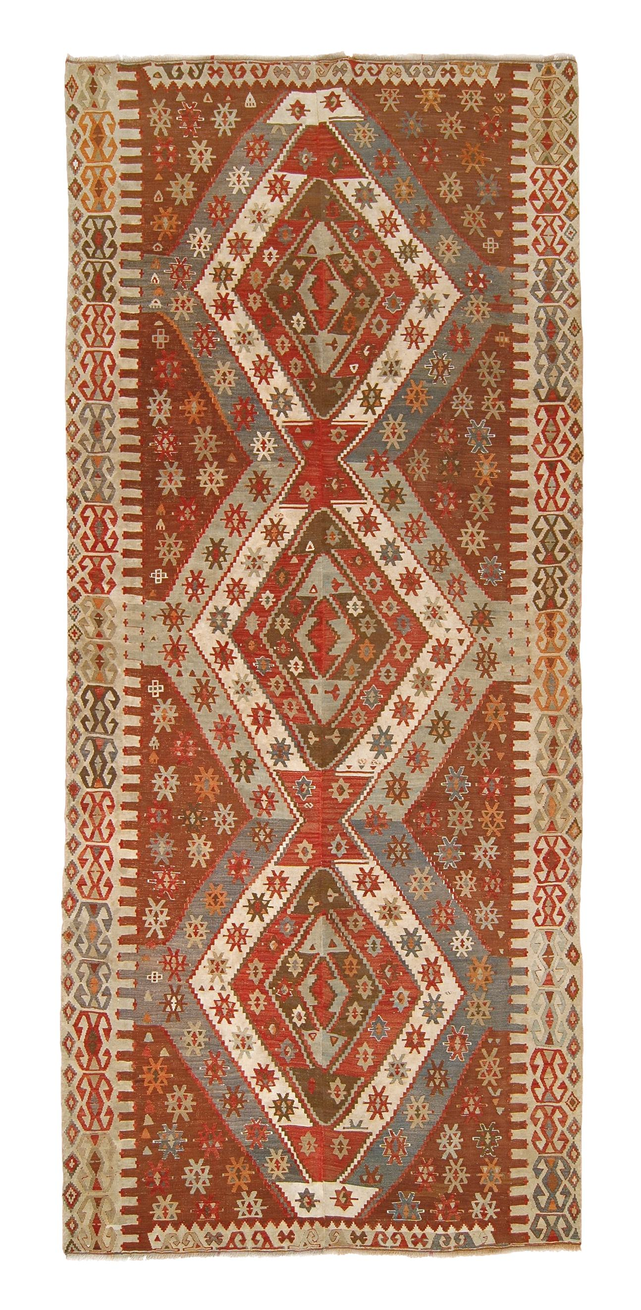 Vegetable-dyed Konya Kilim Rug with two wings, estimated to be 90-100 years old.